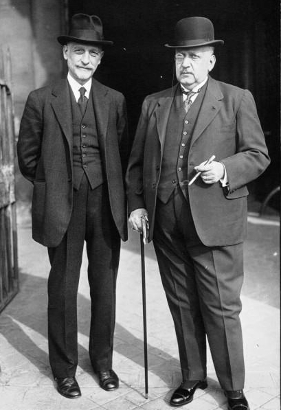 Left to right: Greek Prime Minister Dimitrios Gounaris (1866-1922) and Foreign Minister Georgios Baltatzis (1868-1922).